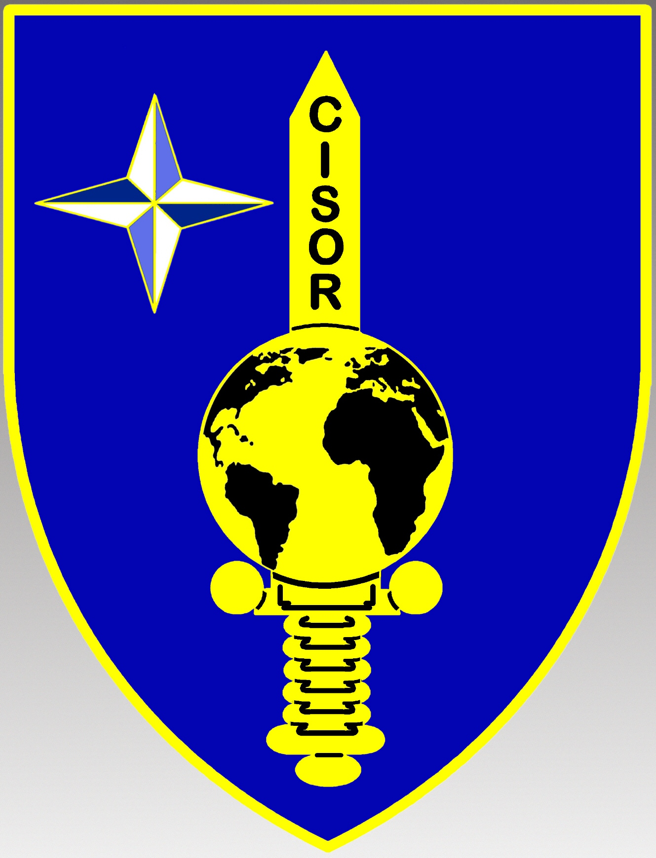 Logo of the Confédération Interalliée des Sous-Officiers de Réserve (CISOR), created by Italy in 2013